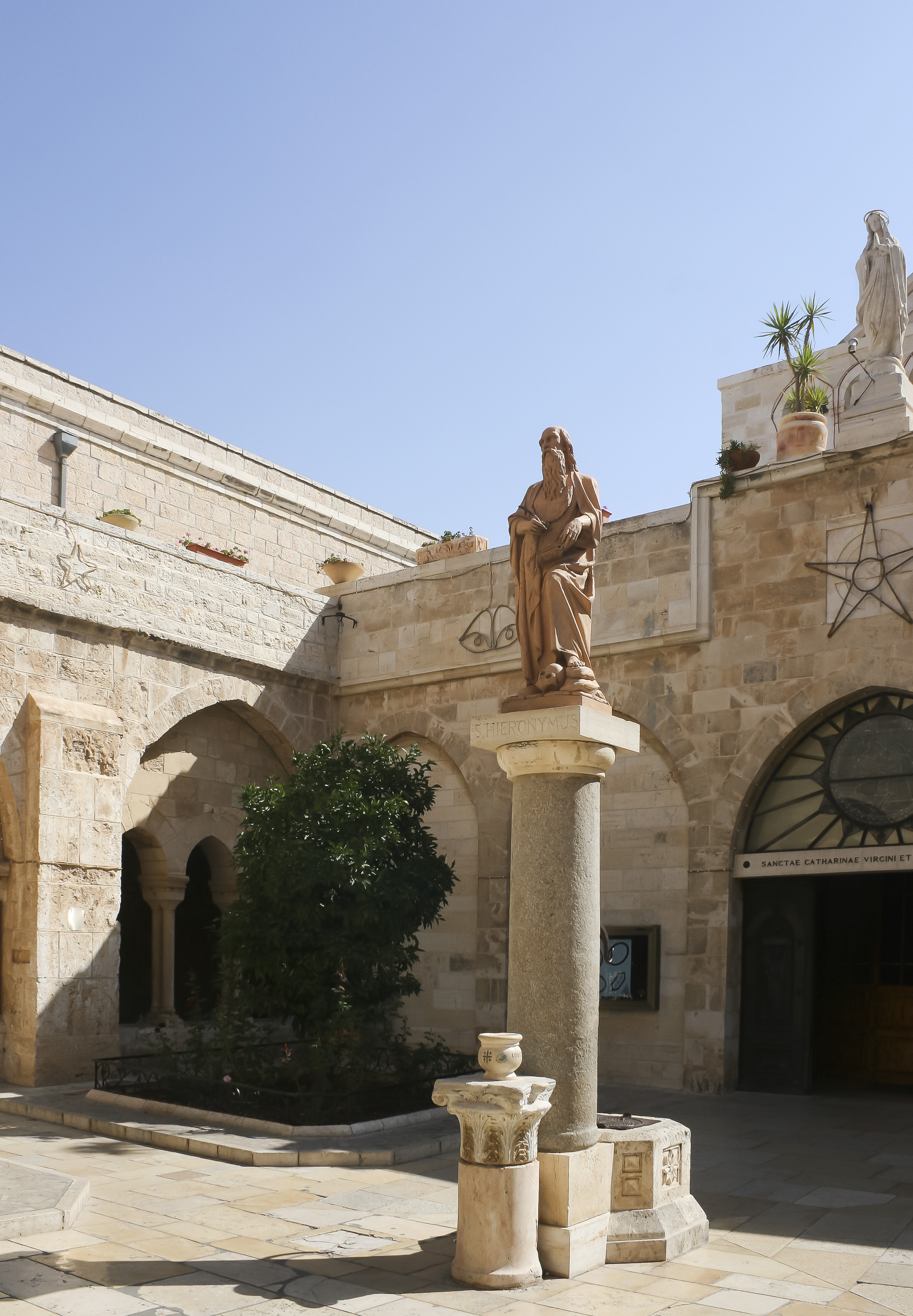 Church of Saint Catherine of Alexandria at the Basilica of the Nativity, Bethlehem, Palestine